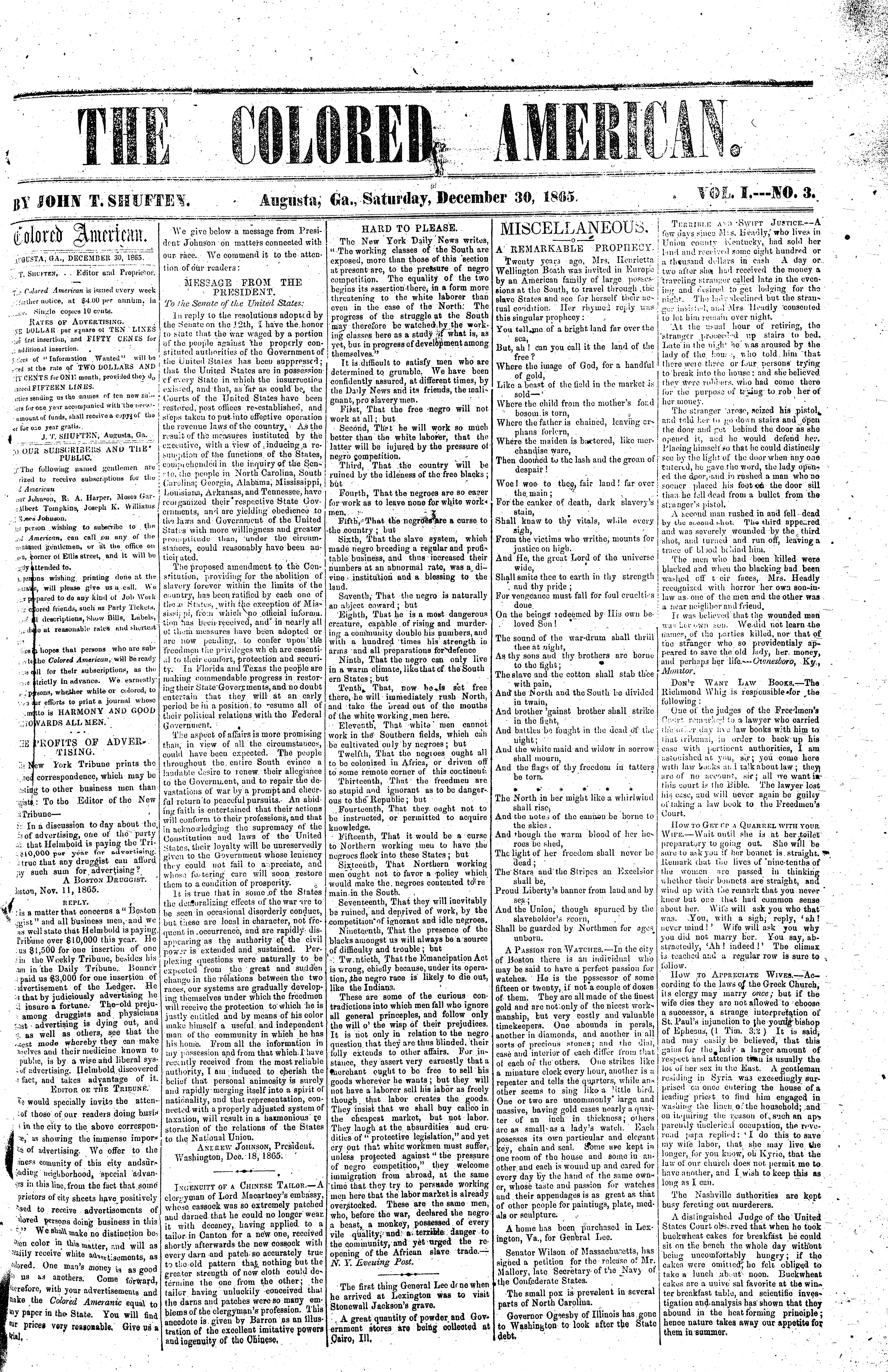 Front page of the December 30, 1865 edition of Augusta, Georgia Colored American, the first known African American newspaper in Georgia.